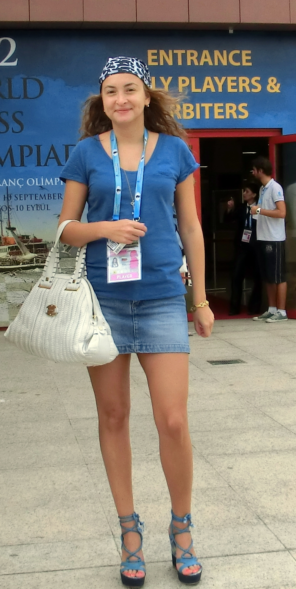 Antoaneta Stefanova, chess grandmaster from Bulgaria